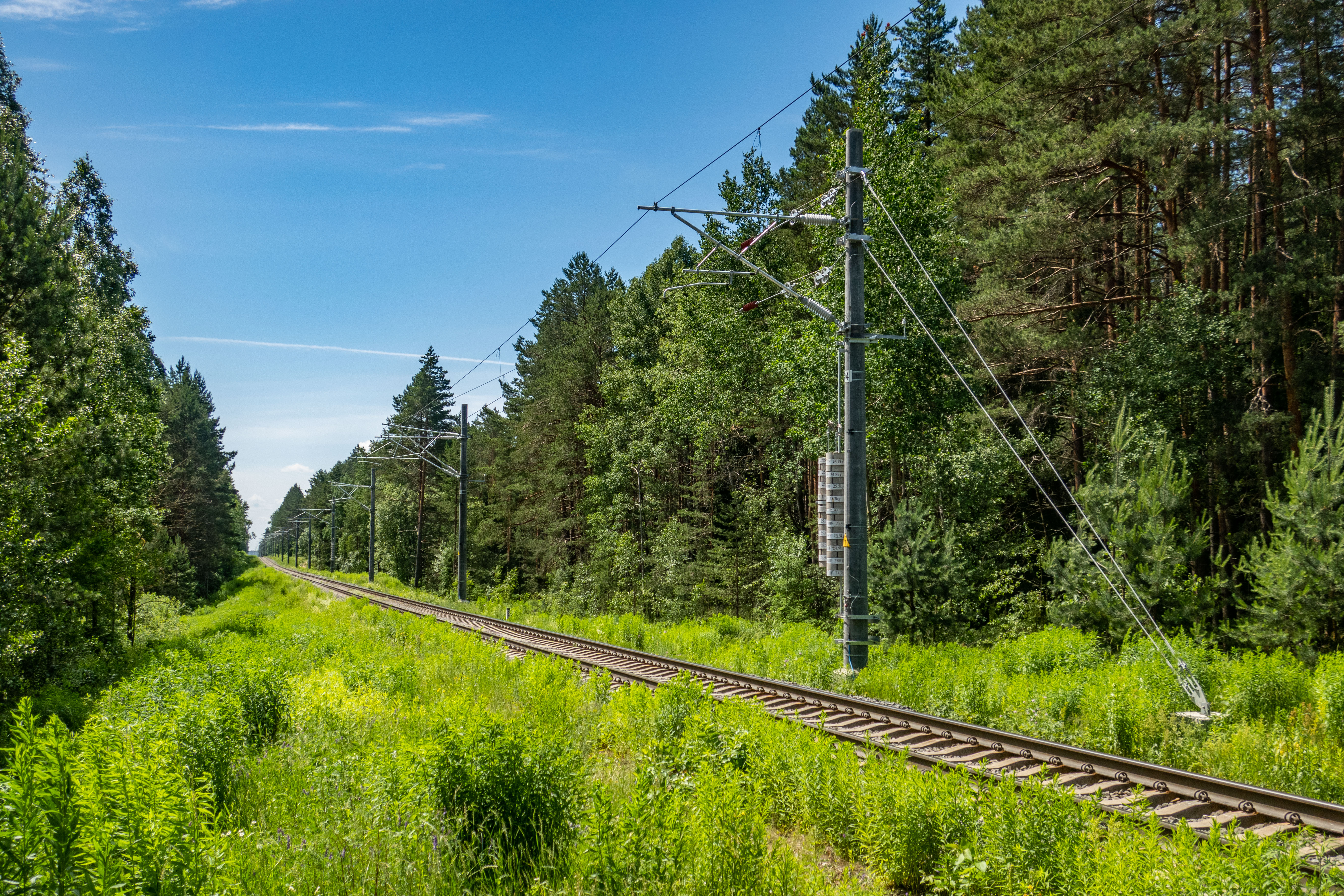 Sciklieva republican biological reserve and the railroad going through. Minsk, Belarus